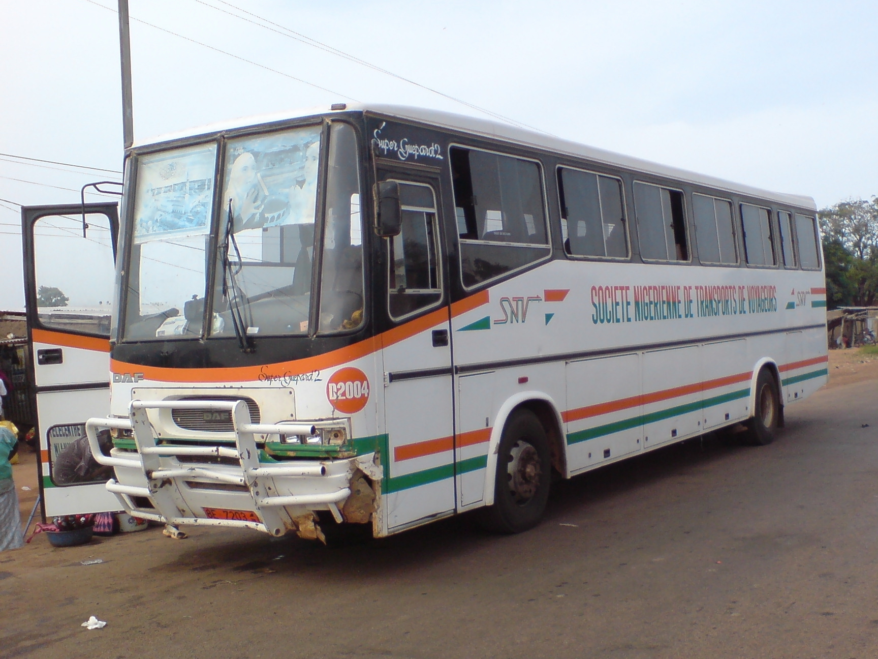 Clipped version of SNTV bus, travelling Ouagadougou, Burkina Faso-Niamey, Niger. DAF Super Guepard 2 bus.